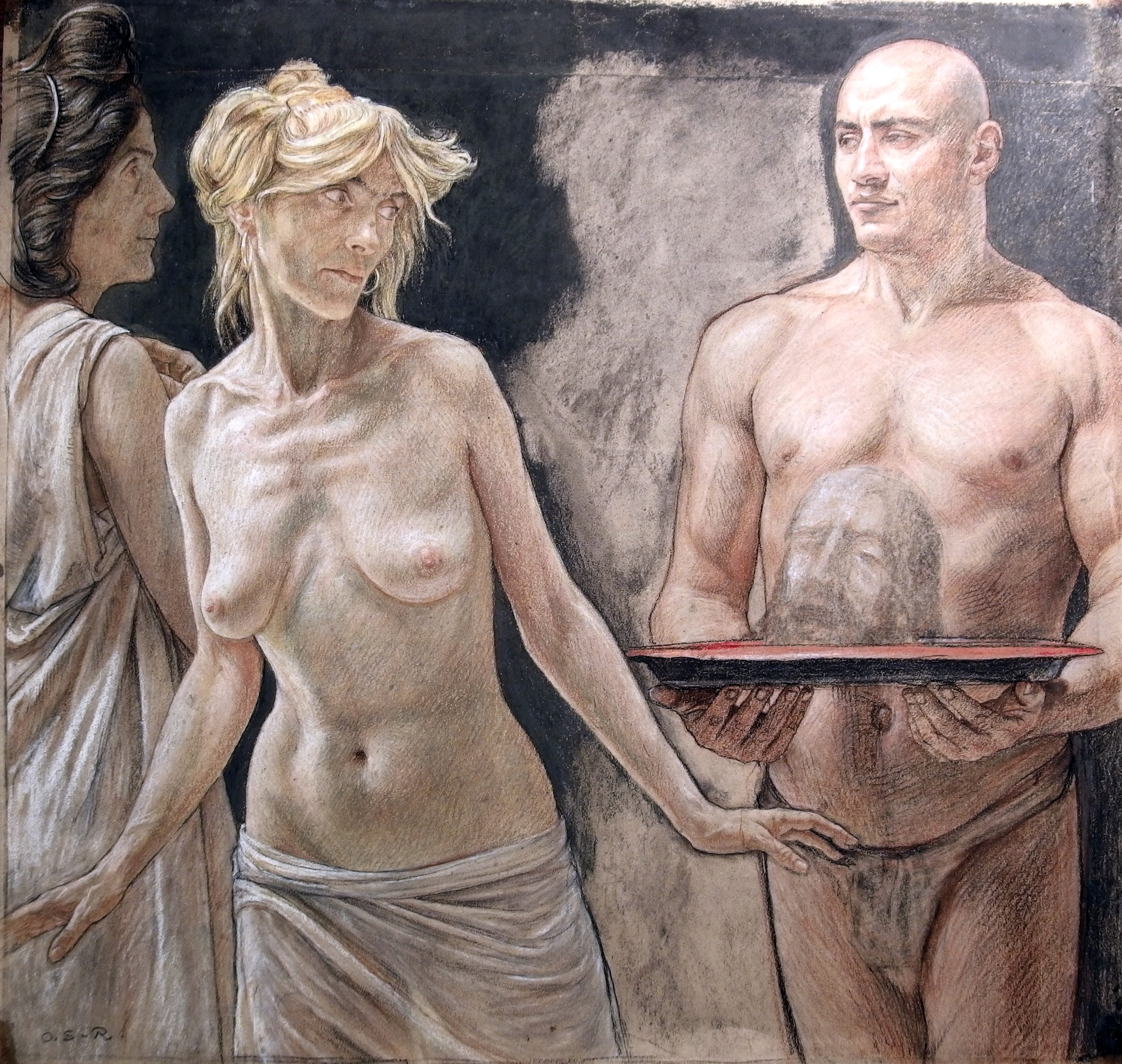 Otto Sohn-Rethel, The Head of Johannes, colored pencil drawing, unfinished, approx. 1907